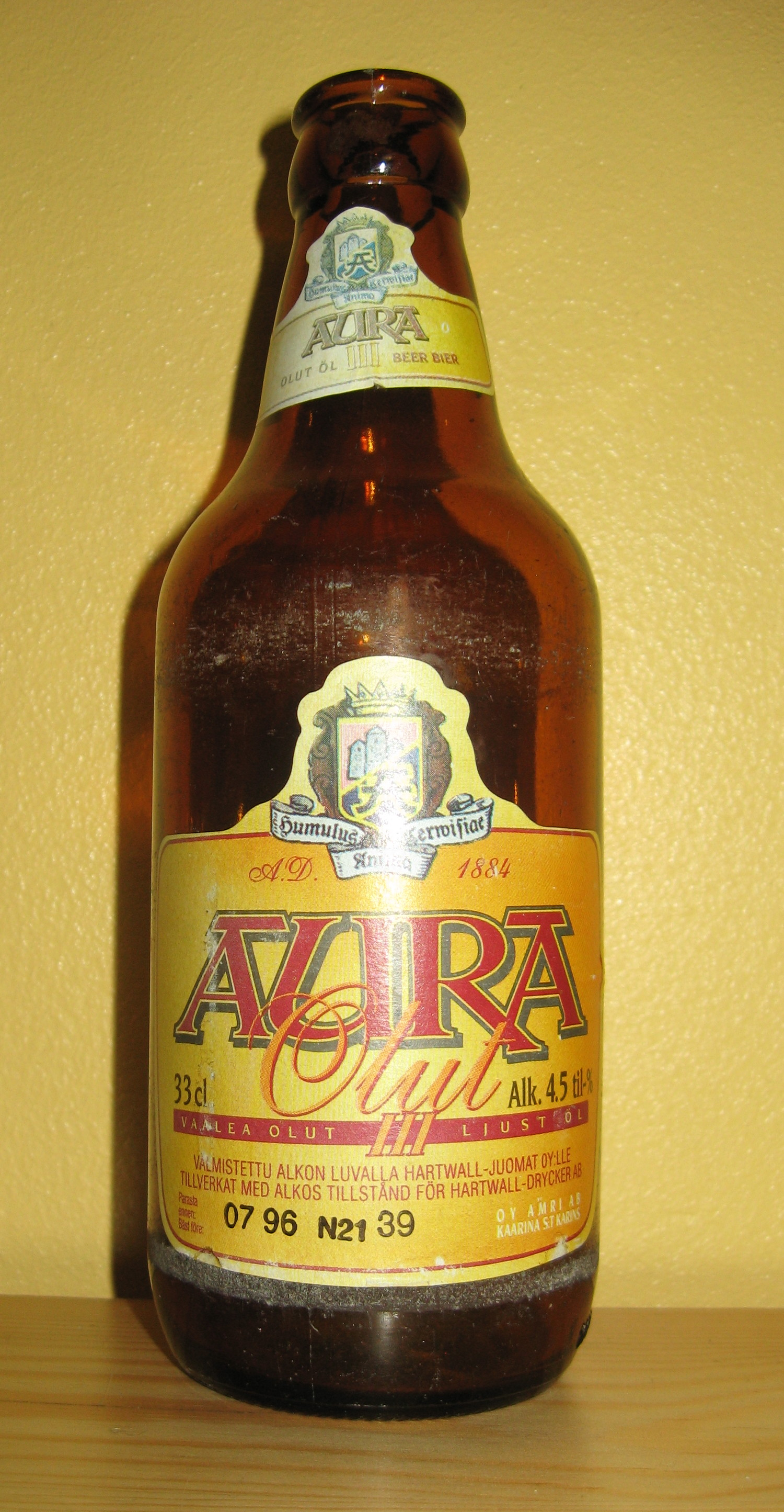 Aura beer bottle (original), manufactured 1885-1995 in Turku and Kaarina, Finland, by Auran Panimo Oy and Oy Hartwall Ab. Front label.